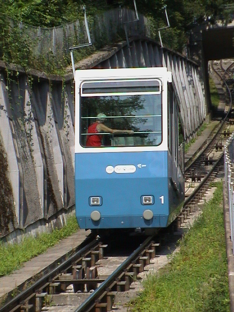 Funicular Rigiblick in Zürich, Switzerland